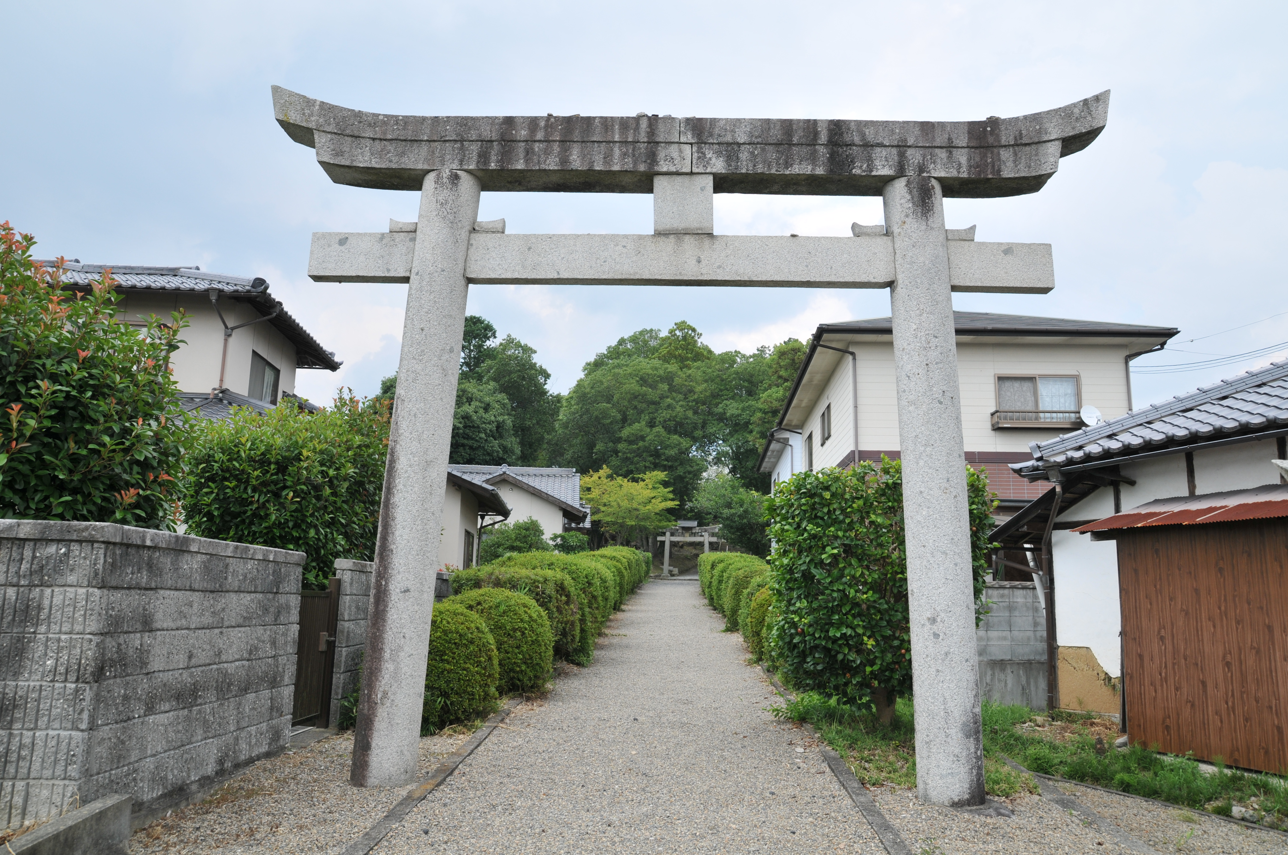 First torii, Takano jinja